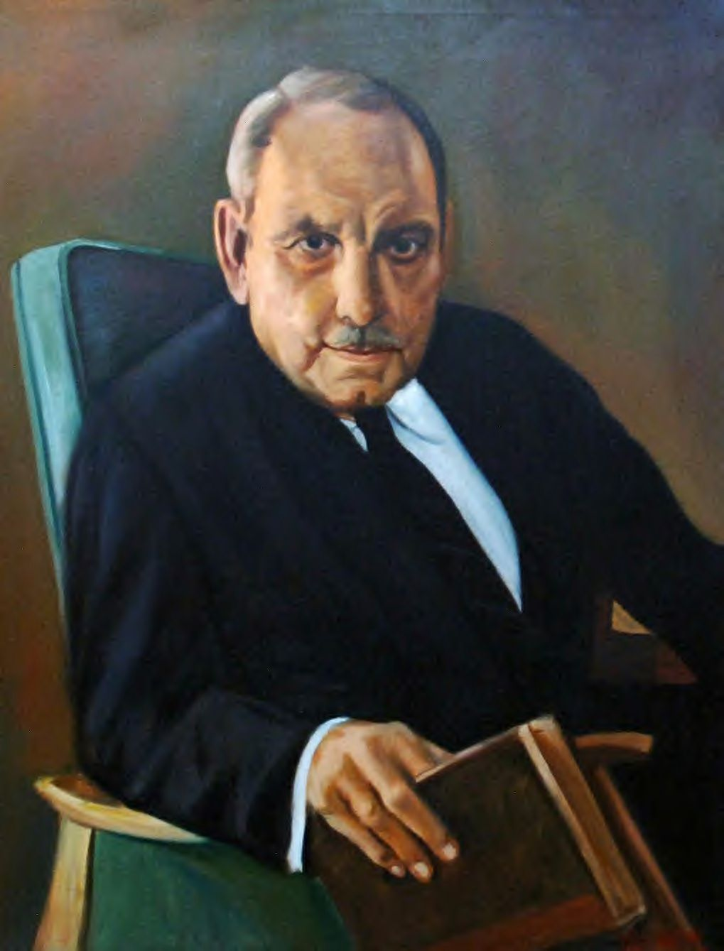 Painting of the Honorable Luis Muñoz Marín, former Secretary of State of Puerto Rico.